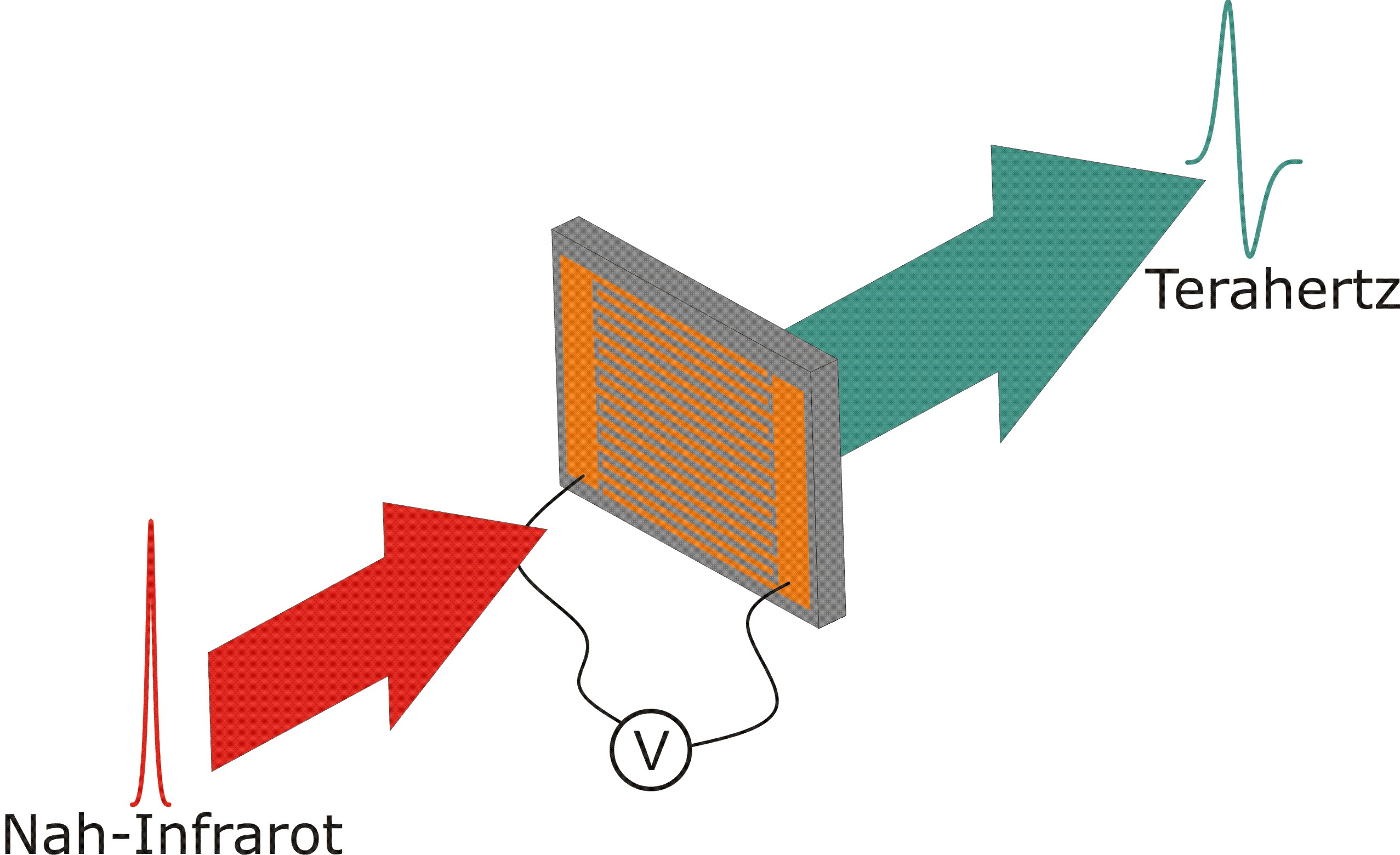 Terahertz generation with a photoconductive switch, Alexander Grün